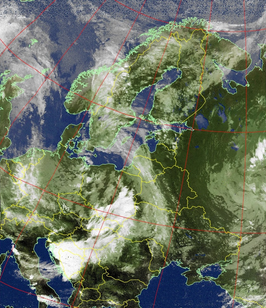 Processed weather image, taken from NOAA-15 satellite, using APT protocol.